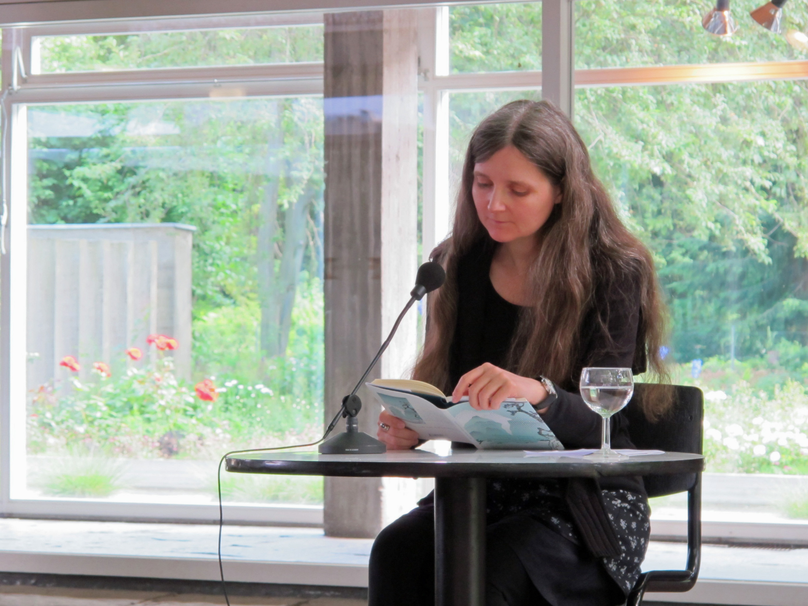 Marion Poschmann at the Lyrikmarkt in Berlin 2016